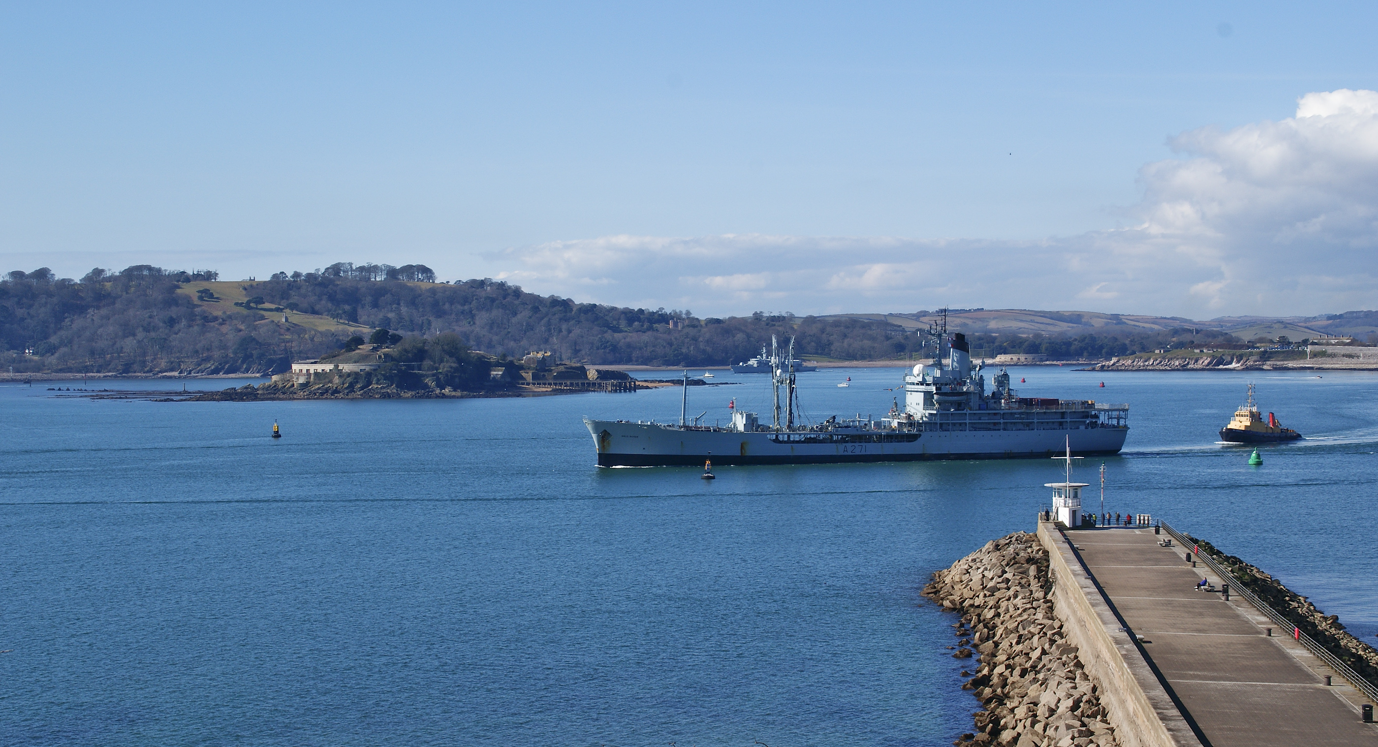 RFA Gold Rover (A271) a small fleet tanker of the Royal Fleet Auxiliary off Mount Batten breakwater and passing Drake's Island in Plymouth Sound, Devon, UK heading out into the English Channel.